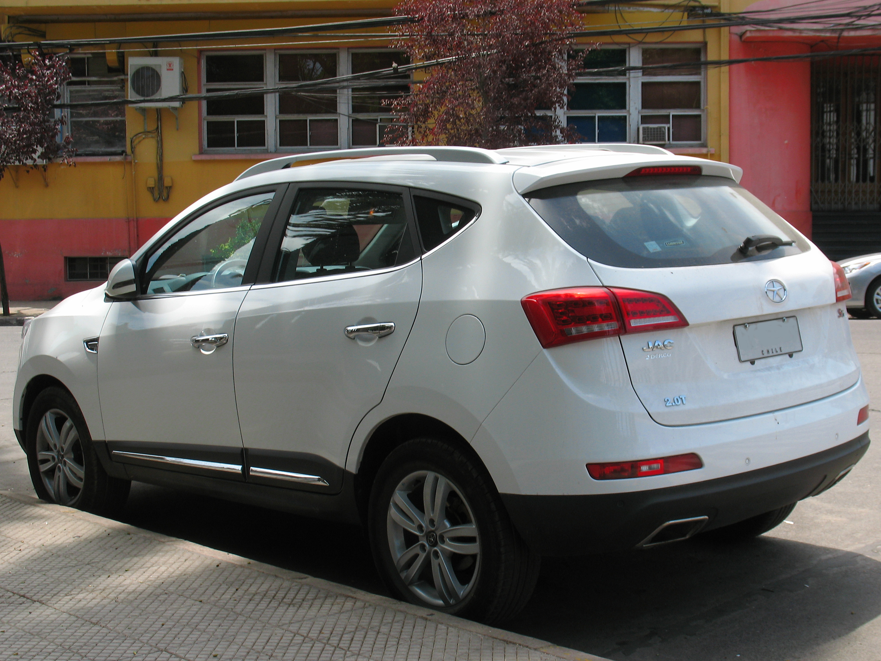 JAC S5 2.0T SE 2014